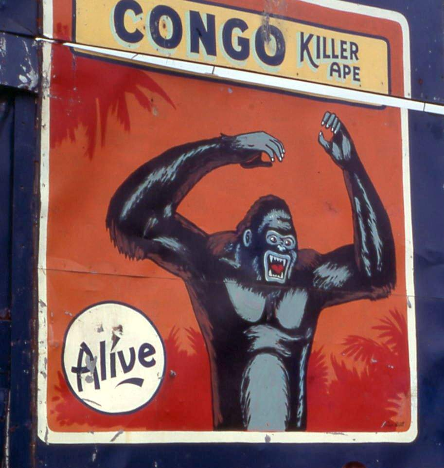 Decaying carnival side show poster: "Congo, Killer Ape - Alive"; photo taken during period of decline of side shows, Florida, 1966.